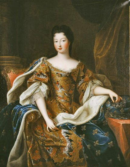 Portrait of Françoise Marie de Bourbon (1677-1749), Légitimée de France, as the Duchess of Chartres